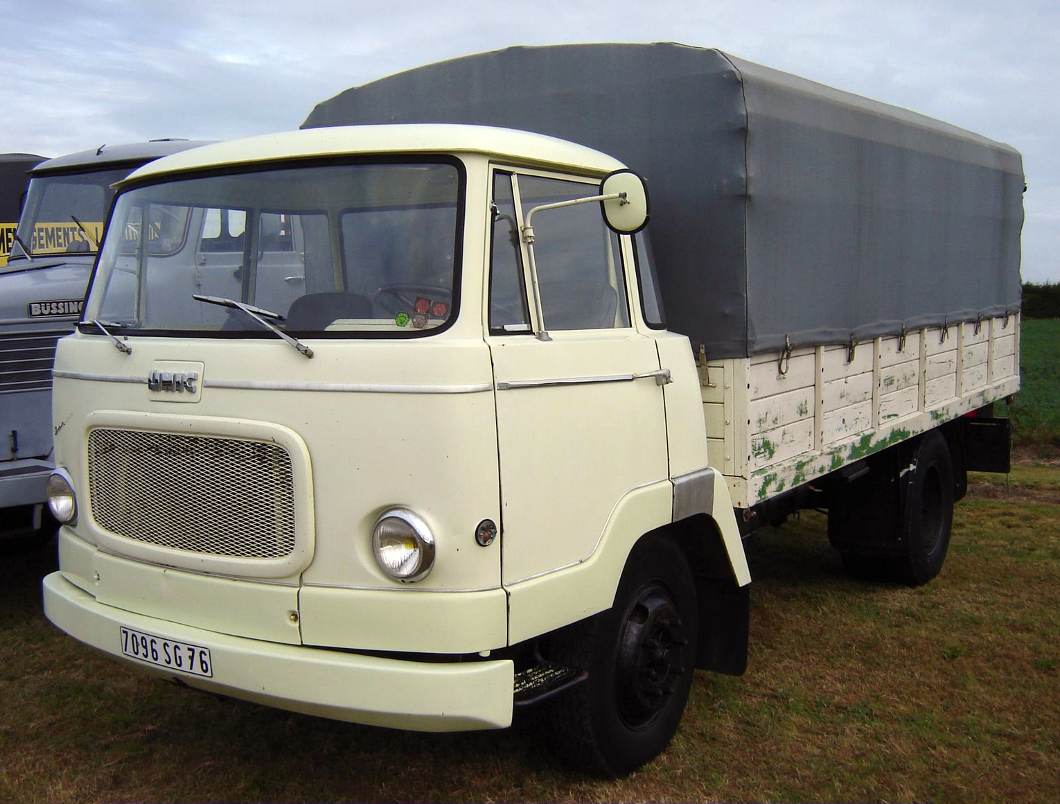 Old UNIC Donon (sub-model of the Vosges) truck with the Auteuil cab.